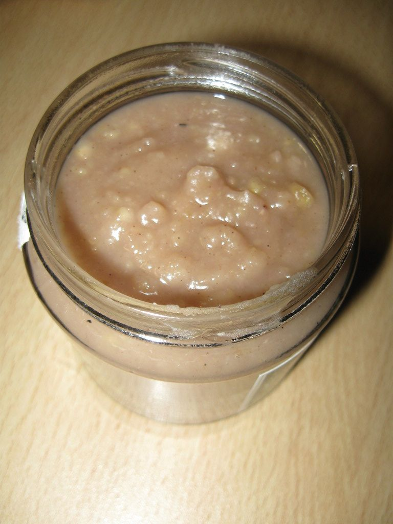 Chestnut jam